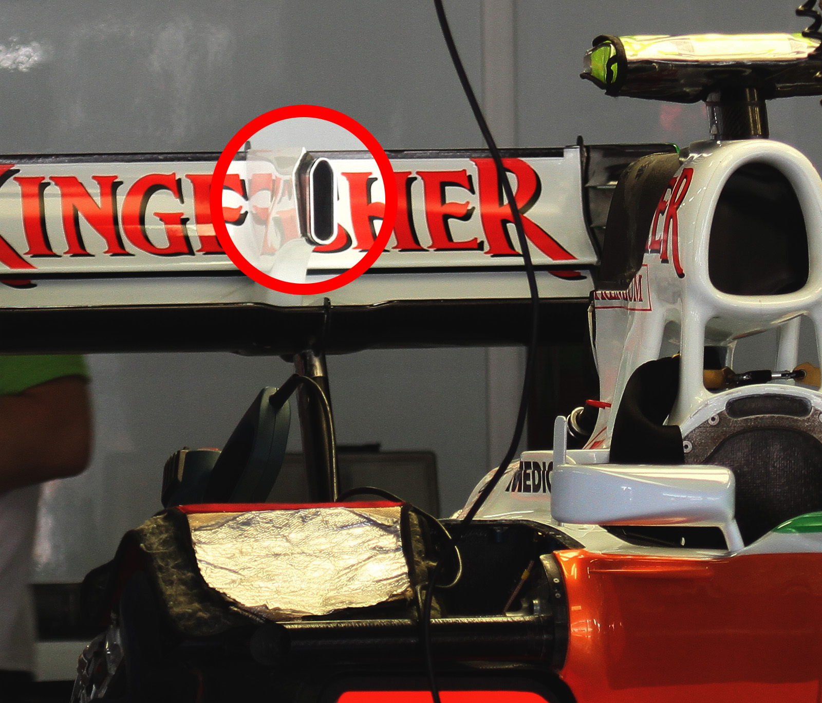 Formula One 2010 Rd.16 Japanese GP: Force India VJM03's rear wing with focus on F-duct slot